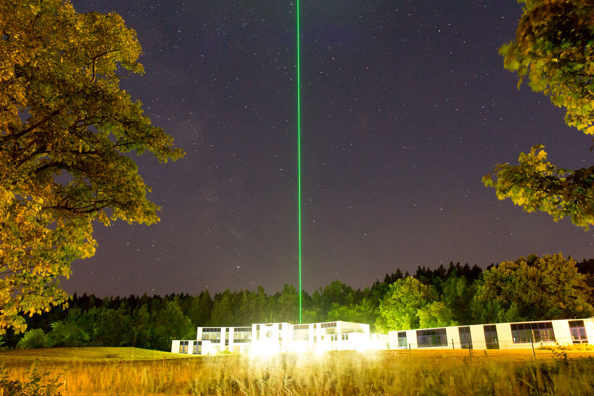 Rayleigh-Mie-Raman-Lidar of the Leibniz Institute of Atmospheric Physics in Kühlungsborn (IAP).